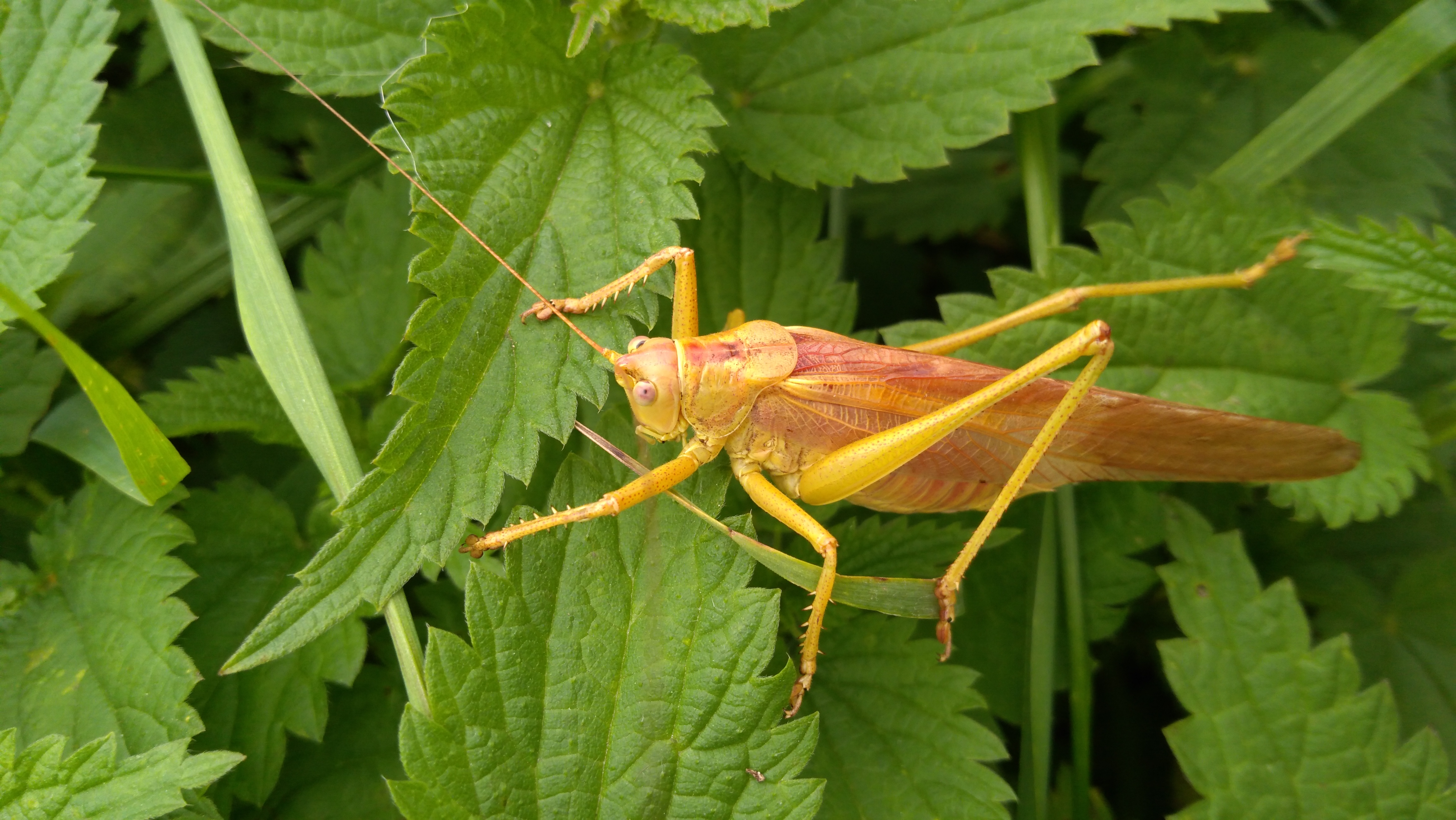 The picture shows the yellow-colored, adult female of Great green bush-cricket (Tettigonia viridissima). This species is characterized by a completely green color, but sometimes imago can appear in yellow or green with yellow-colored legs.